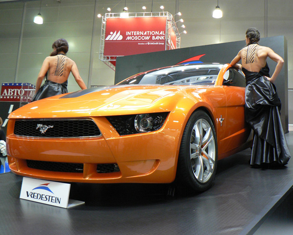 Ford Mustang Giugiaro concept at Moscow motor show InterAuto 2007.